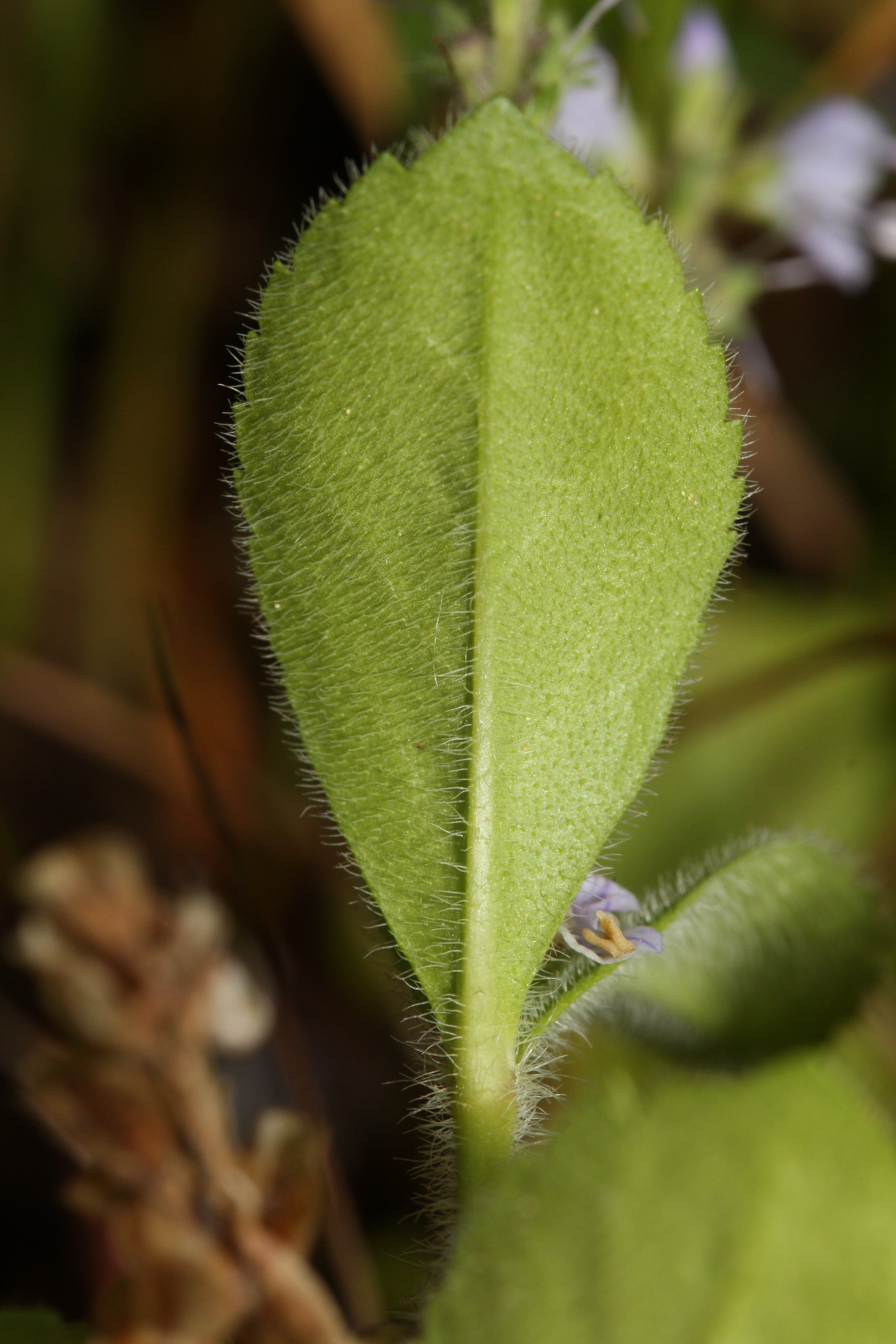 Common Gypsyweed, Herbal Speedwell, Paul's Betony